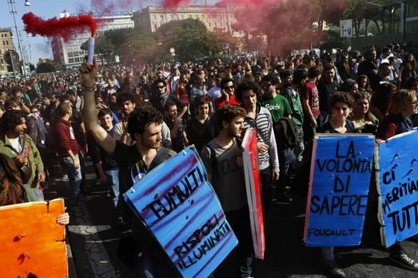 Demo in Rome for the European Strike